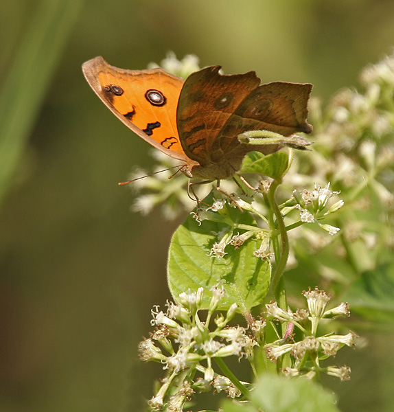 Peacock Pansy Junonia almana in Kolkata, West Bengal, India.